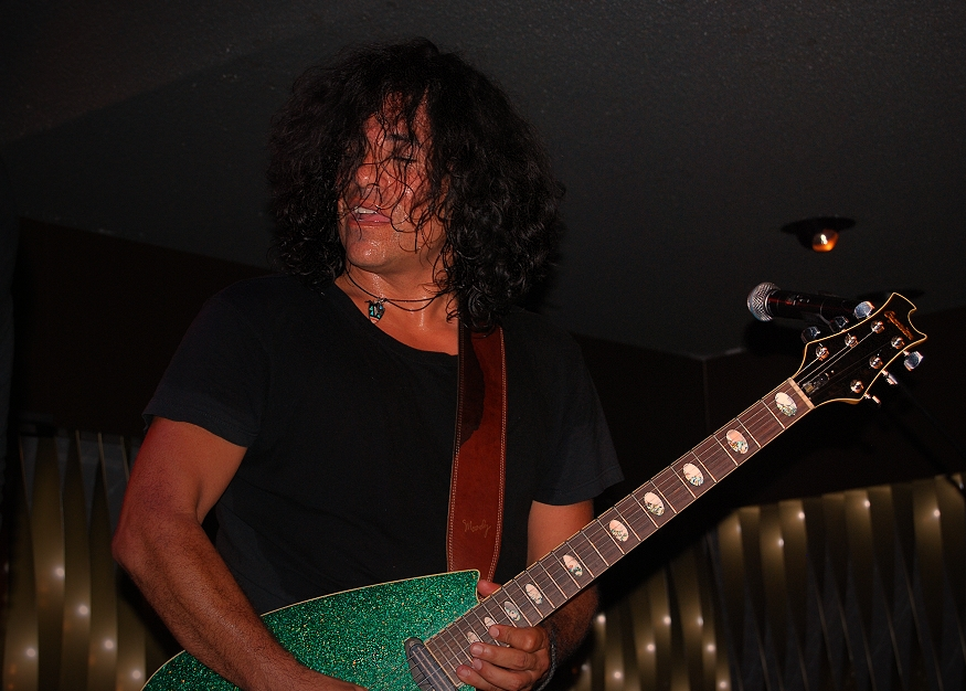 Stevie Salas with THE IMF´s (Bernard Fowler, Jara Harris, Dave Abbruzzese) at Jazzbar BIX in Stuttgart 2009-09-19